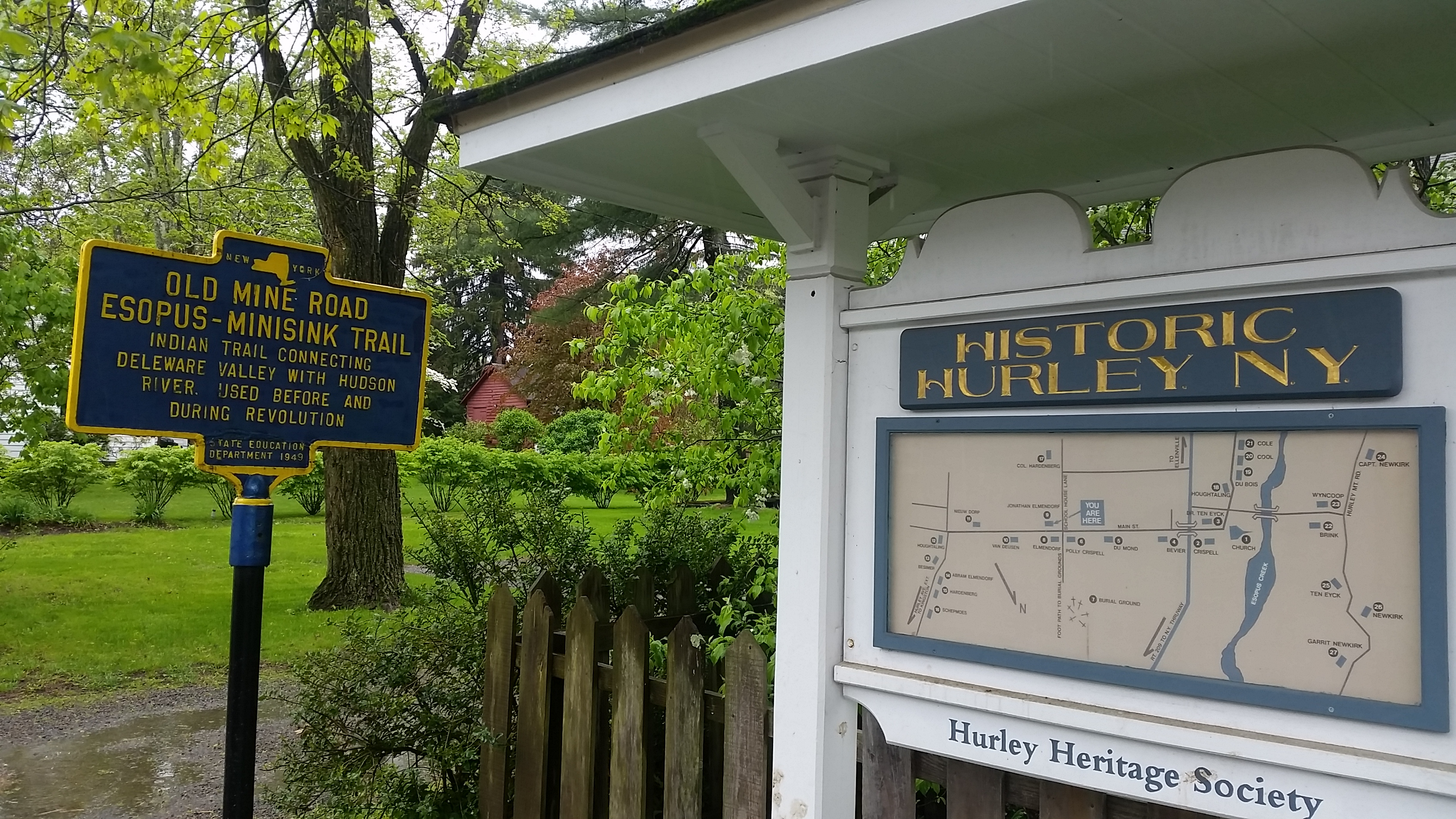 Historical Marker for the old Native American path from the Delaware Valley to Kingston NY, the same path as the Old Mine Road, the D&H Canal (roughly) and US Route 209. Those Natives, they knew the good ways to go.